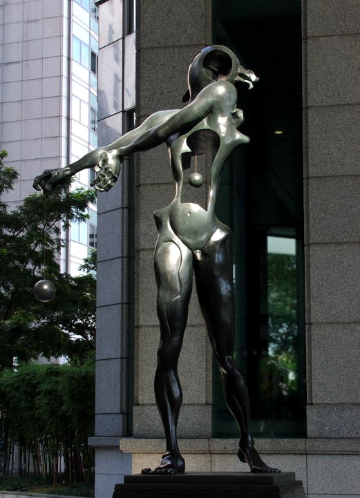 Sculpture Homage to Newton by Spanish artist Salvador Dali (May 11, 1904 – January 23, 1989) at the UOB Plaza, near Boat Quay in Singapore.